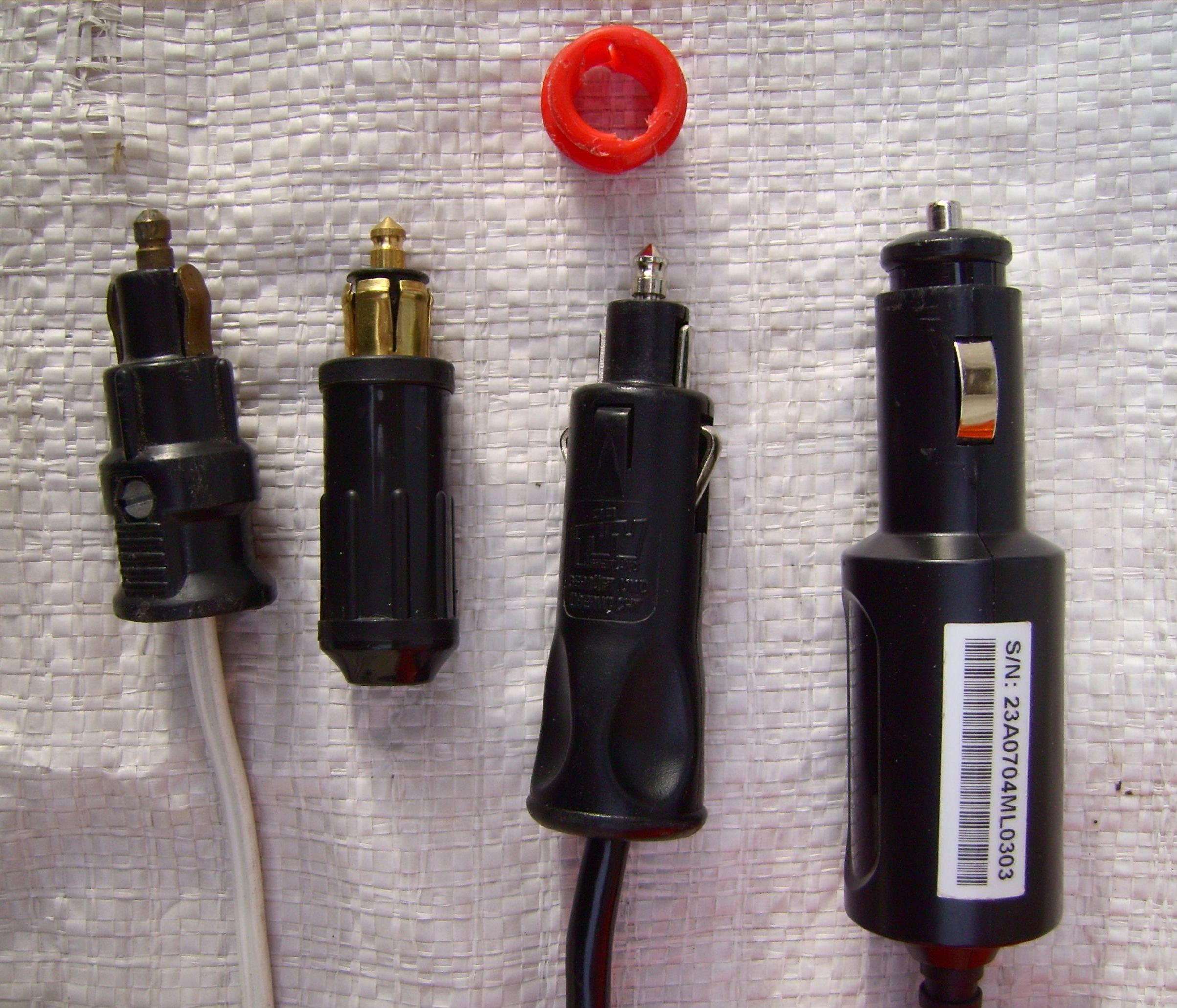 Four plugs for handlamp sockets (ISO 4165) and cigarette-lighter